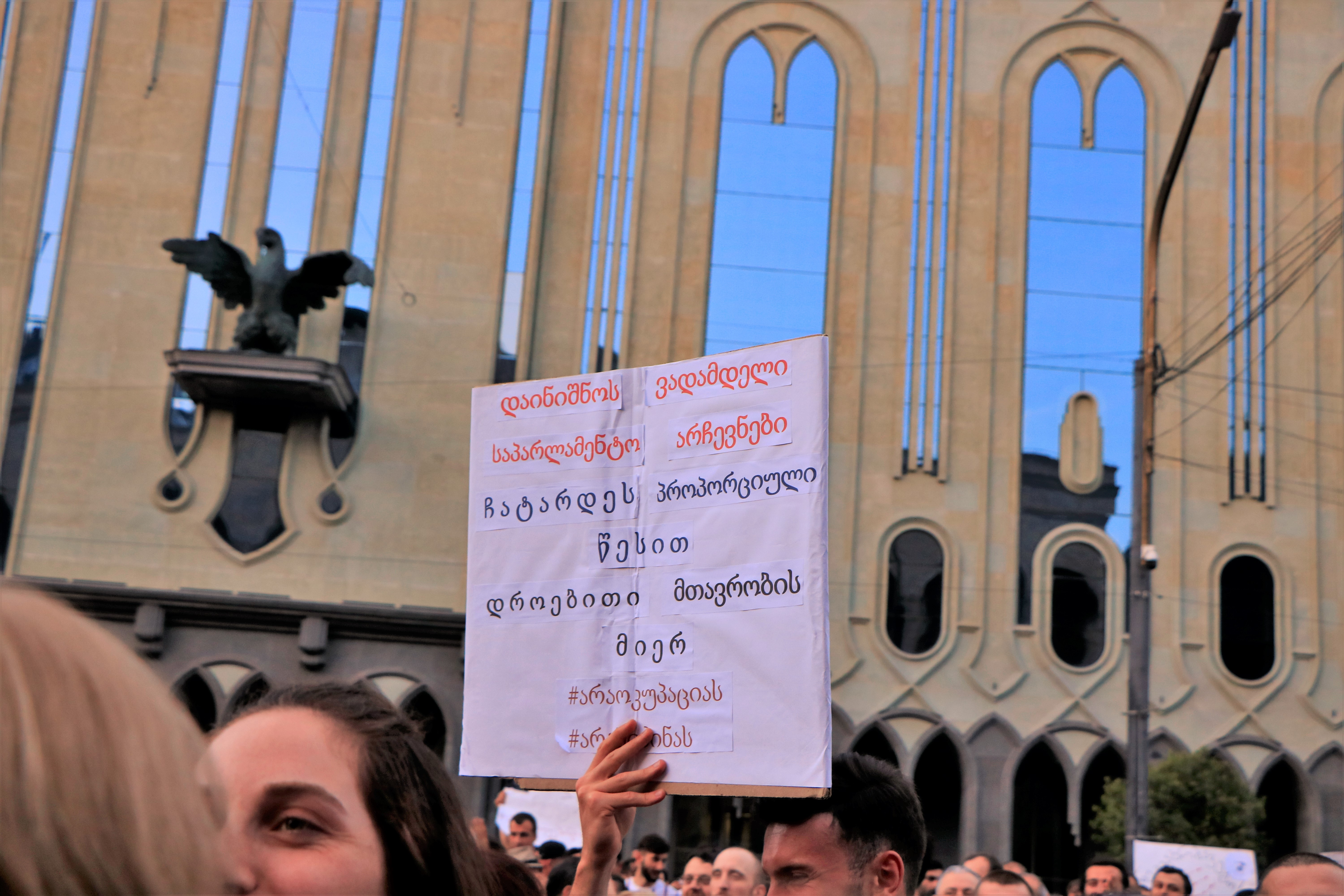 Gavrilov's Night Day 2 - Demands